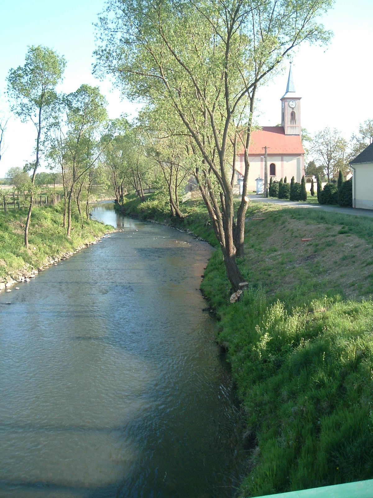 Vaskeresztes, The Church with the River Pinka